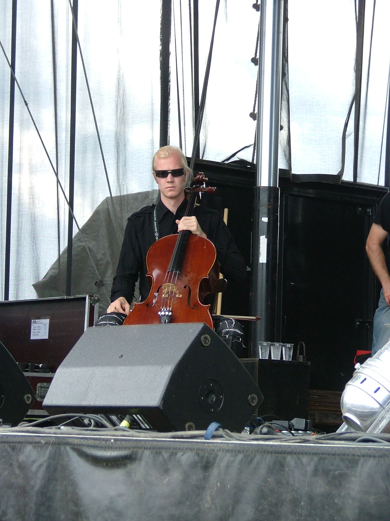 Finnish thrash metal band with symphonic metal influences Hevein